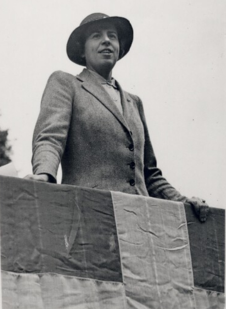 Photograph of the Danish resistance organizer and internalional official Gabriele Rohde (1904-1946) speaking in Netherhall Gardens, London, in 1943